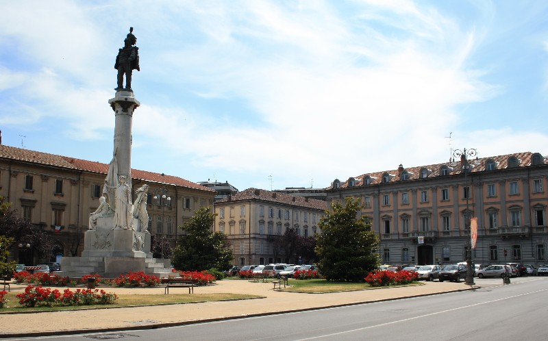 Piazza Pajetta Vercelli